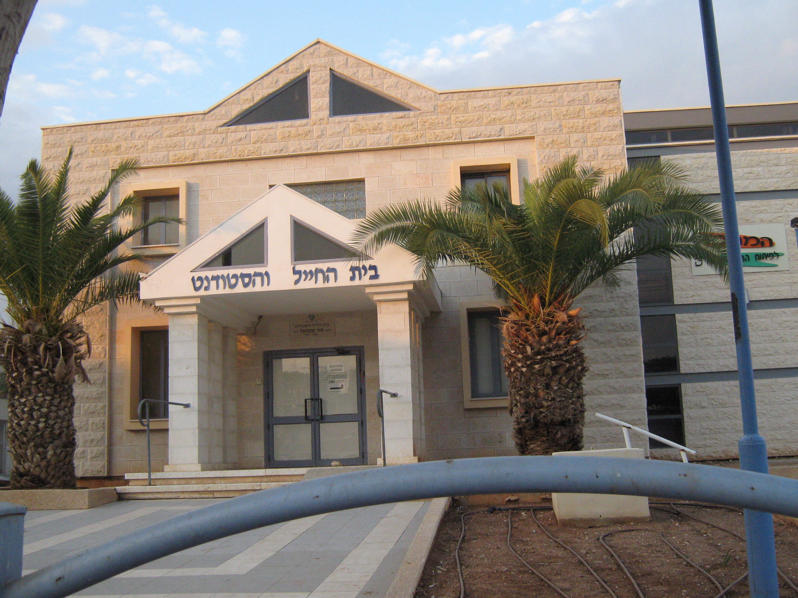 Building a student soldier